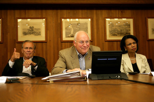 Vice President Dick Cheney is seated with Secretary of State Condoleezza Rice and Secretary of Defense Donald Rumsfeld as they participate in a video teleconference from Camp David, Md., Tuesday, June 13, 2006 with President Bush and Iraqi Prime Minister Nouri al-Maliki in Baghdad. White House photo by David Bohrer